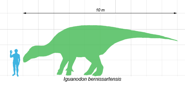 Size chart for Iguanodon bernissartensis, based on an illustration by ArthurWeasley